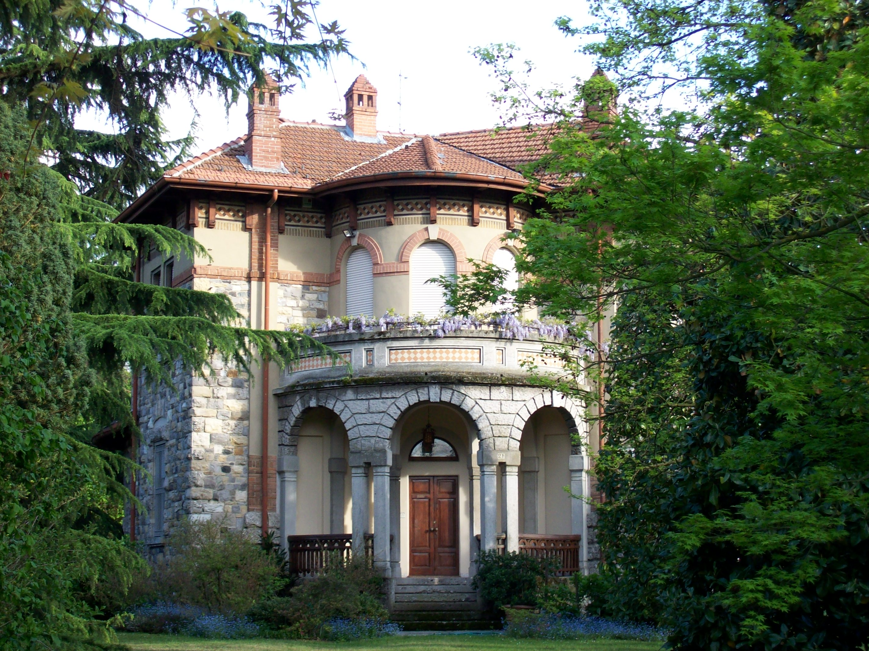 Crespi d'Adda workers' village (Capriate San Gervasio, province of Bergamo, Italy): house built for cotton mill's general manager